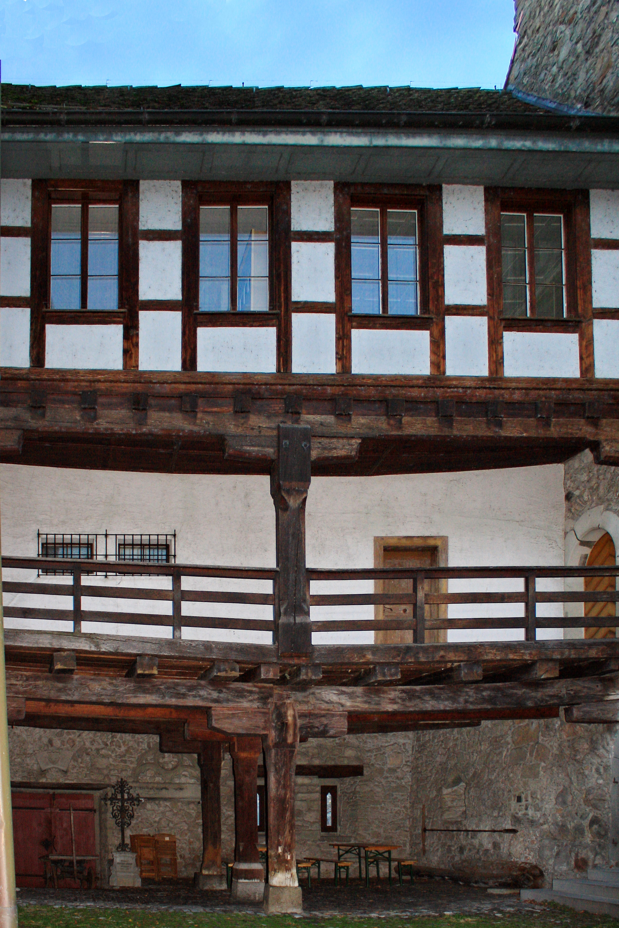 Rapperswil (SG) : Stadtmuseum Rapperswil (Breny-Turm) respectively western town walls.